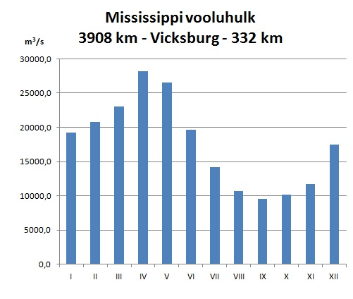 Hydrograph of Mississippi